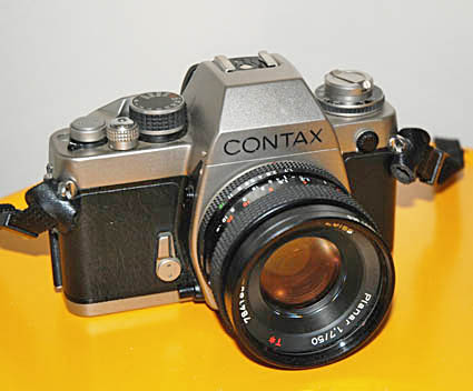 Low resolution photograph of a Contax S2 camera with a Carl Ziess 50mm f1.7 lens.